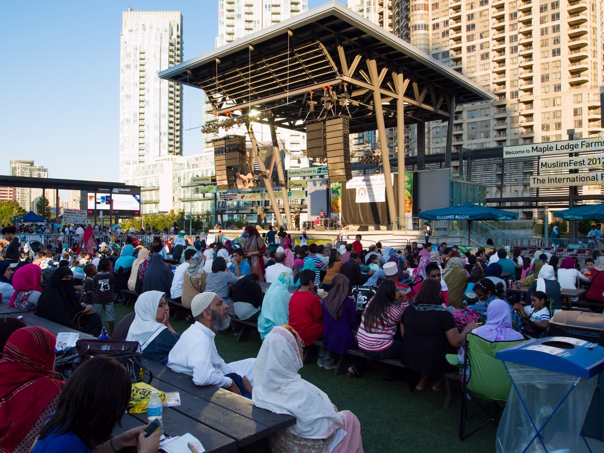 Main stage at MuslimFest held in Mississauga, Ontario at Celebration Square.